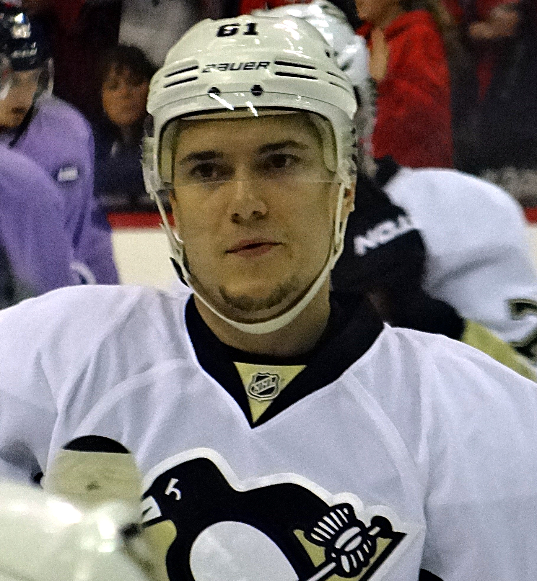 Pittsburgh Penguins forward Sergei Plotnikov during a game against the Washington Capitals, October 28, 2015, at Verizon Center in Washington, D.C.